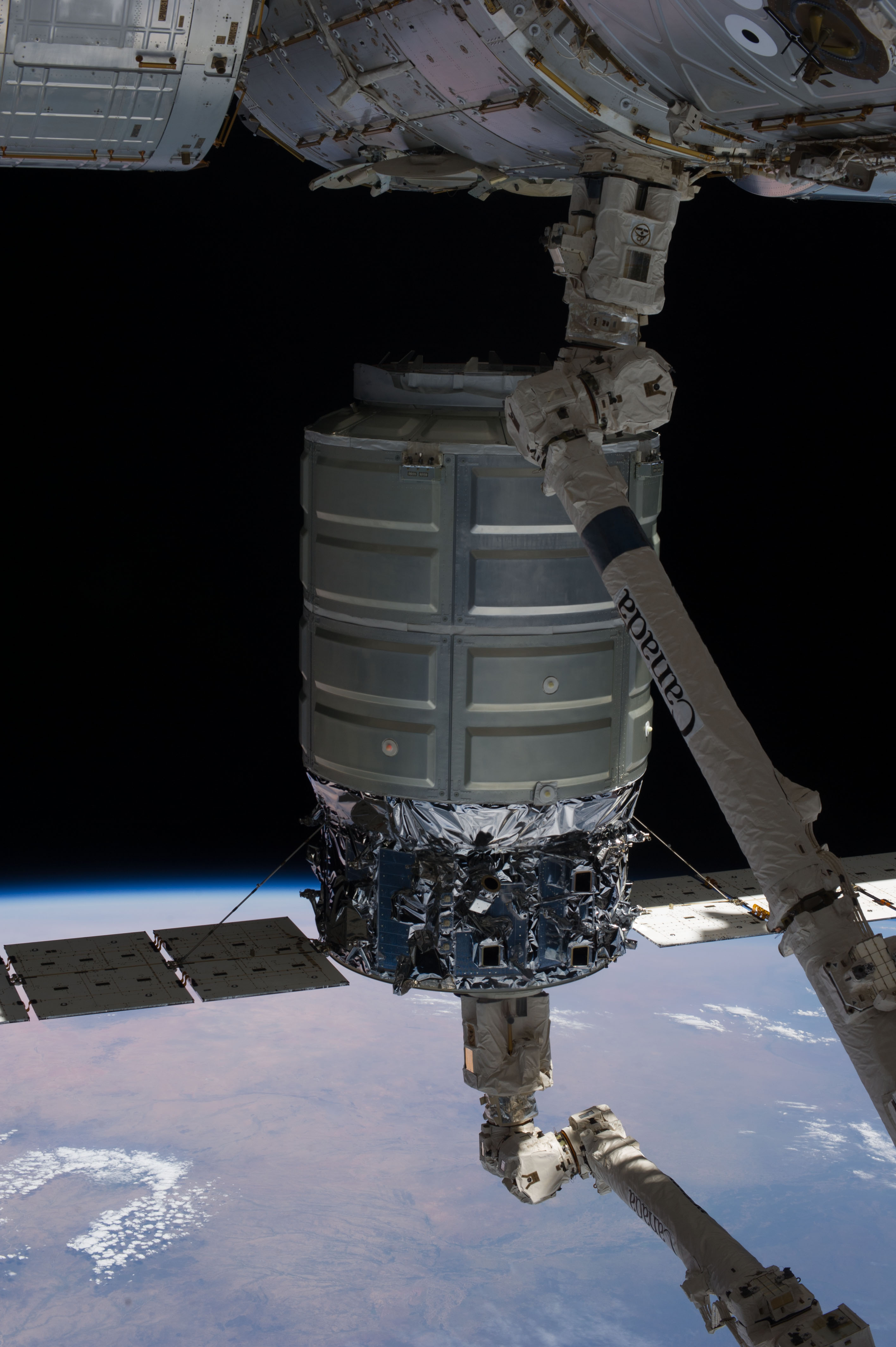 The International Space Station's Canadarm2 unberths the Orbital Sciences' Cygnus commercial craft after three weeks at the space station. European Space Agency astronaut Luca Parmitano and NASA astronaut Karen Nyberg, both Expedition 37 flight engineers, were at the controls of the robotics workstation removing Cygnus from the Harmony node then safely releasing it at 7:31 a.m. (EDT) Oct. 22, 2013. On Oct. 23, the Cygnus will fire its engines for the last time at 1:41 p.m. and re-enter Earth's atmosphere for destruction over the Pacific Ocean. Earth's horizon and the blackness of space provide the backdrop for the scene.